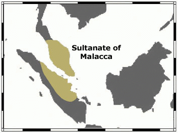 Sultanate of Malacca in the end of 15th century.